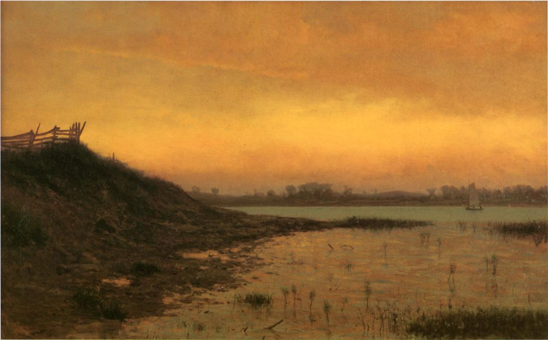 "Long Island," oil on canvas, by the American Luminist painter James Augustus Suydam. Private collection.